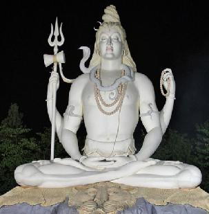 Shiva Kanachur MP